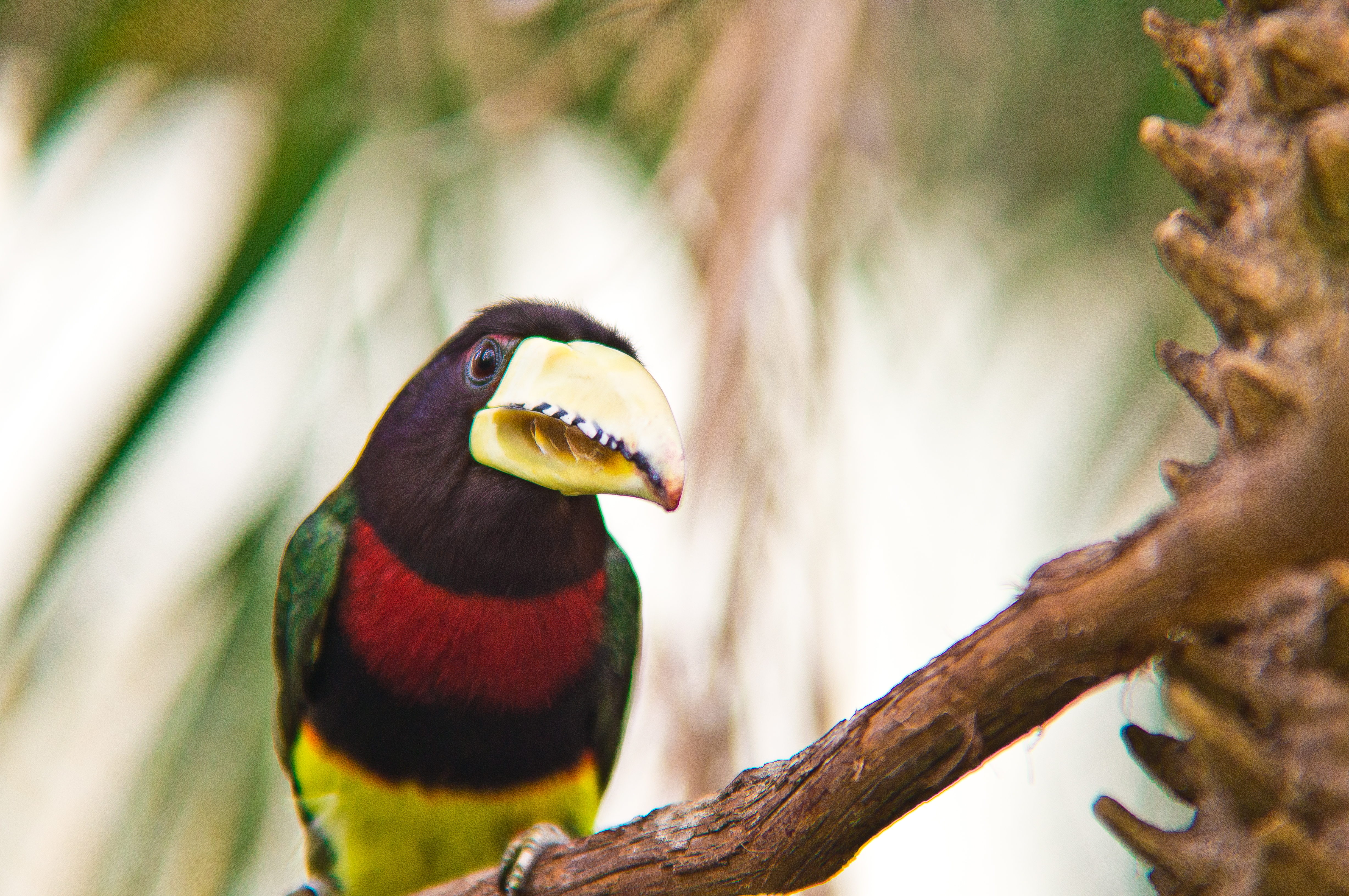 A Ivory-billed Aracari at Philadelphia Zoo, Pennsylvania, USA.